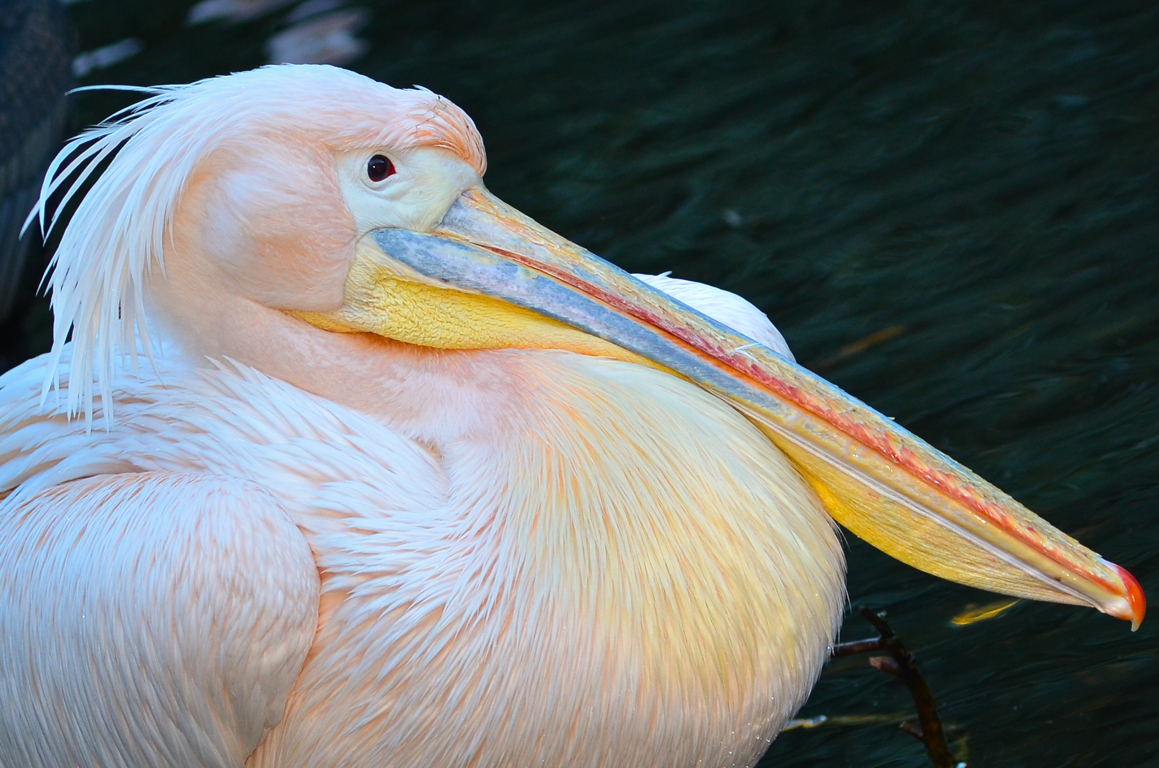 Great White Pelican (Pelecanus onocrotalus) at Weltvogelpark Walsrode (Walsrode Bird Park, Germany)